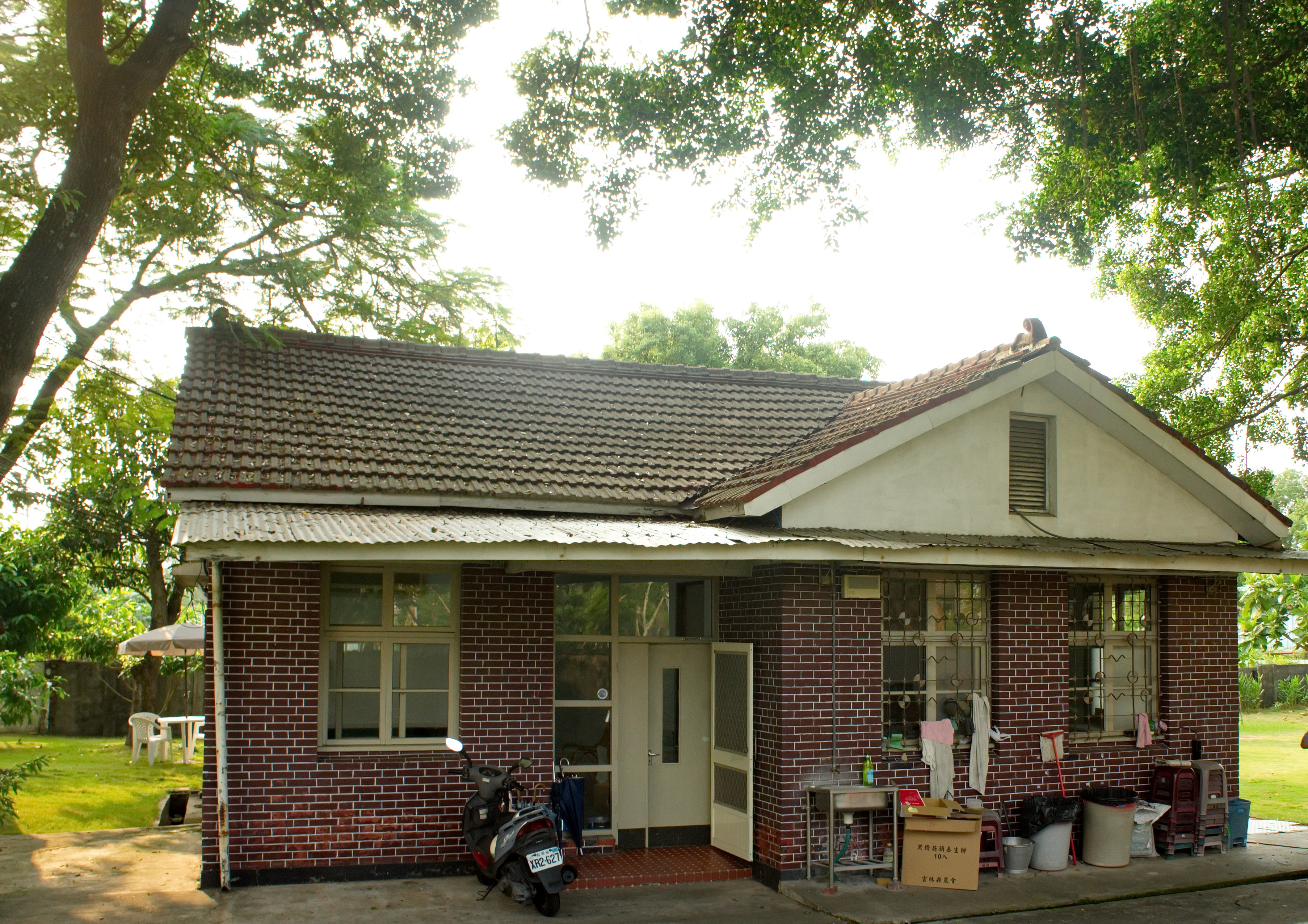 196 Gongjheng Street, Yunlin, Taiwan.